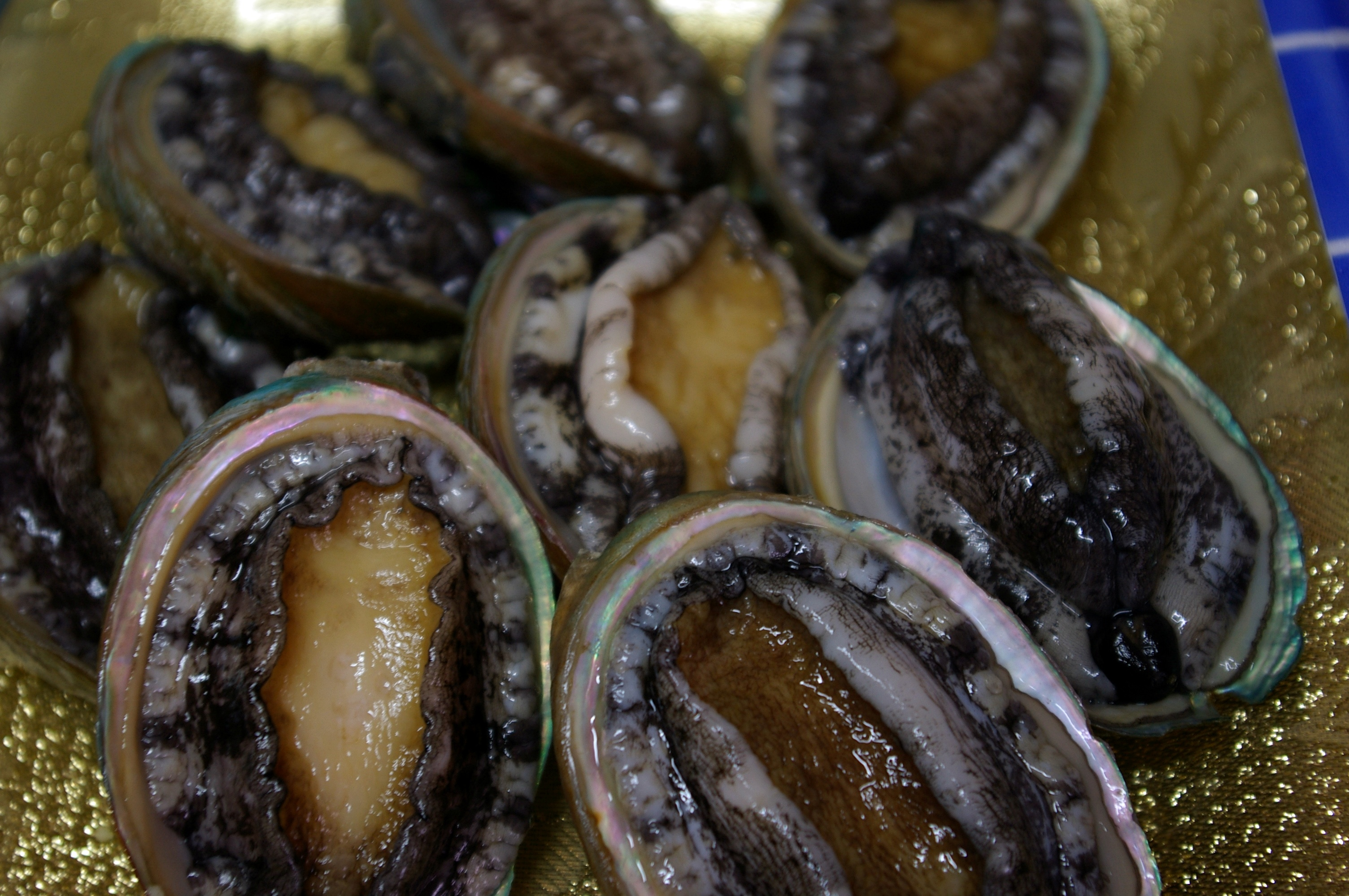 A basket of abalone in South Korea.